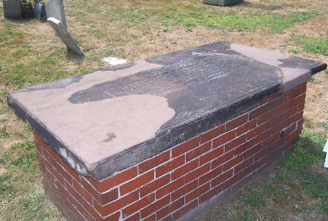 Tomb of Humphrey Atherton, Dorchester North Burying Place, Bosotn, Ma